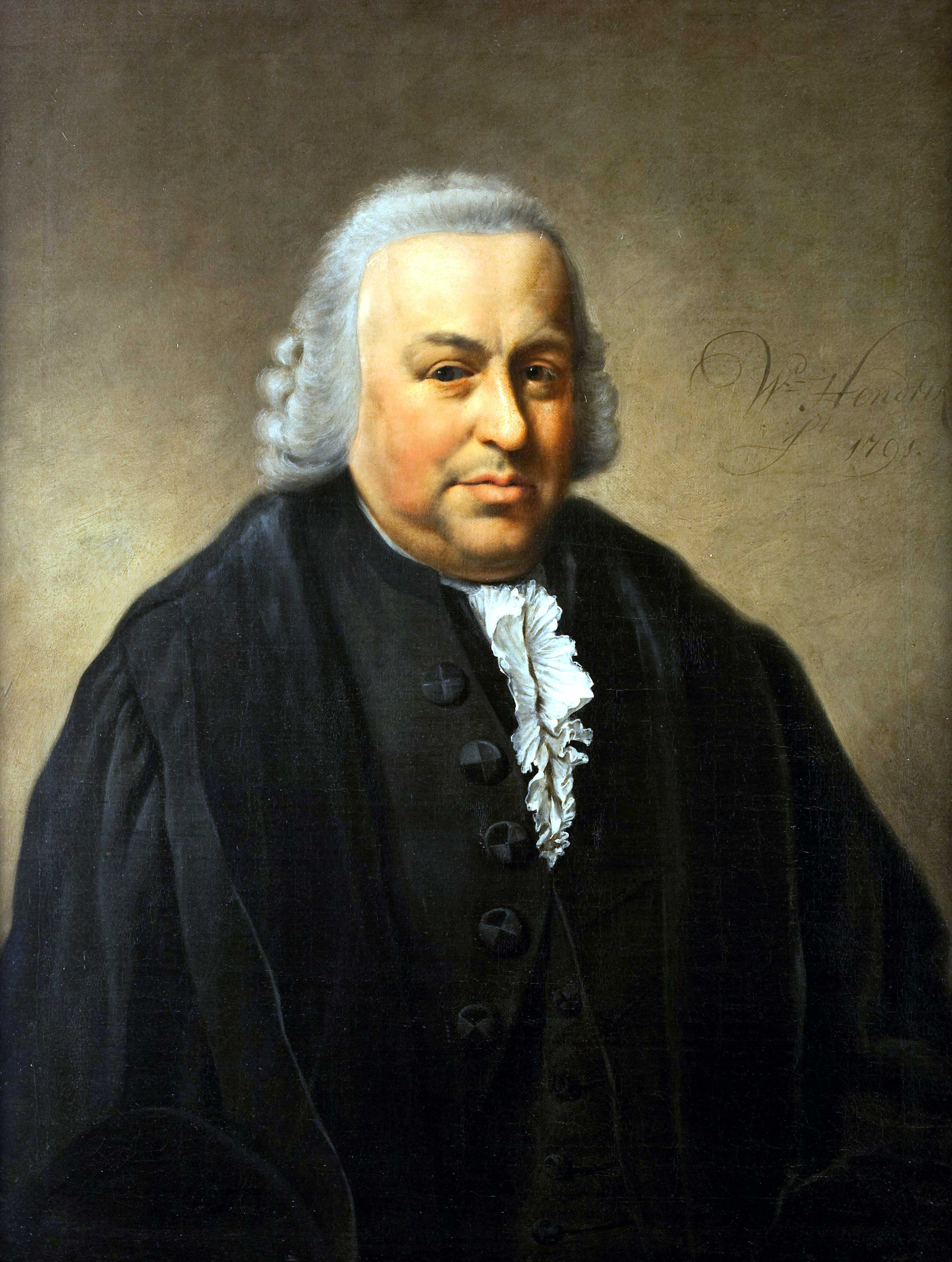 Nicolaas Paradijs (1740-1812) Dutch physicians